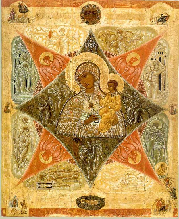 The icon of the Mother of God "The Burning Bush"